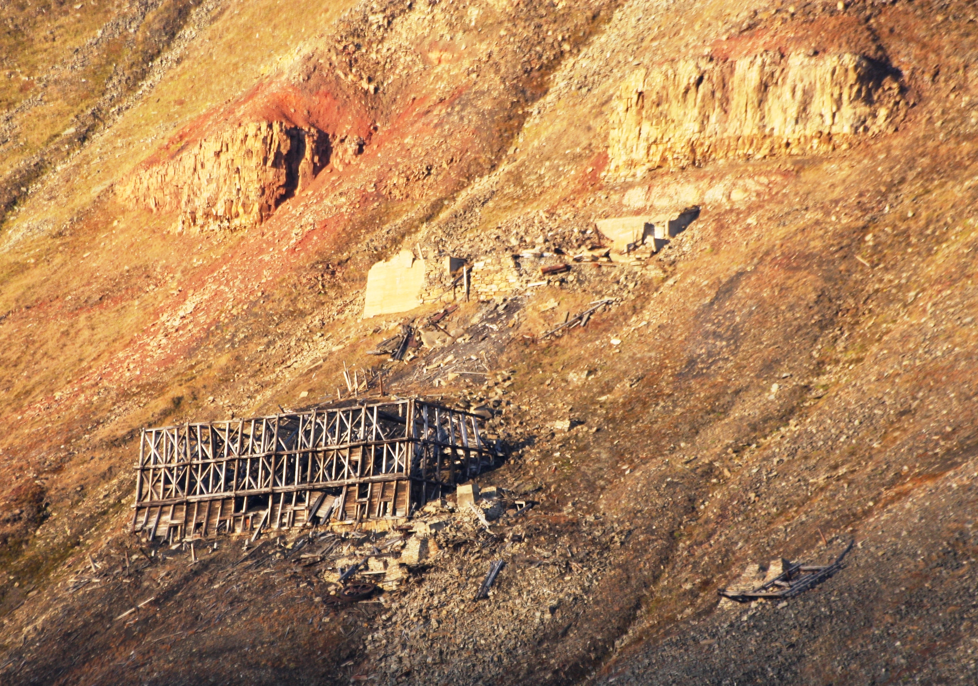 Mine No 1a ("Amerikanergruva"), Longyearbyen (Svalbard, Norway)